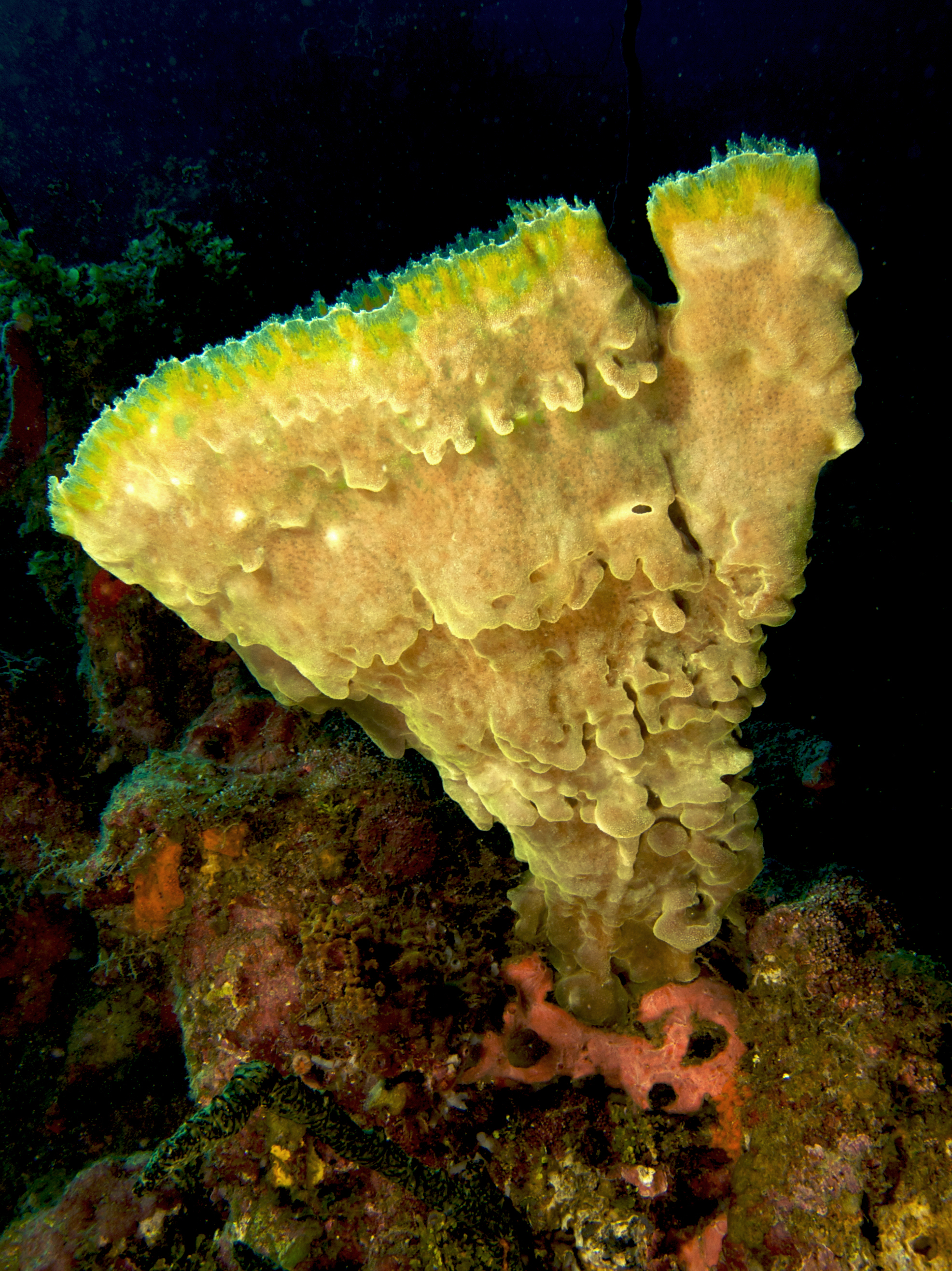 Callyspongia (Cladochalina) vaginalis (Branching Vase Sponge - yellow variaiton)